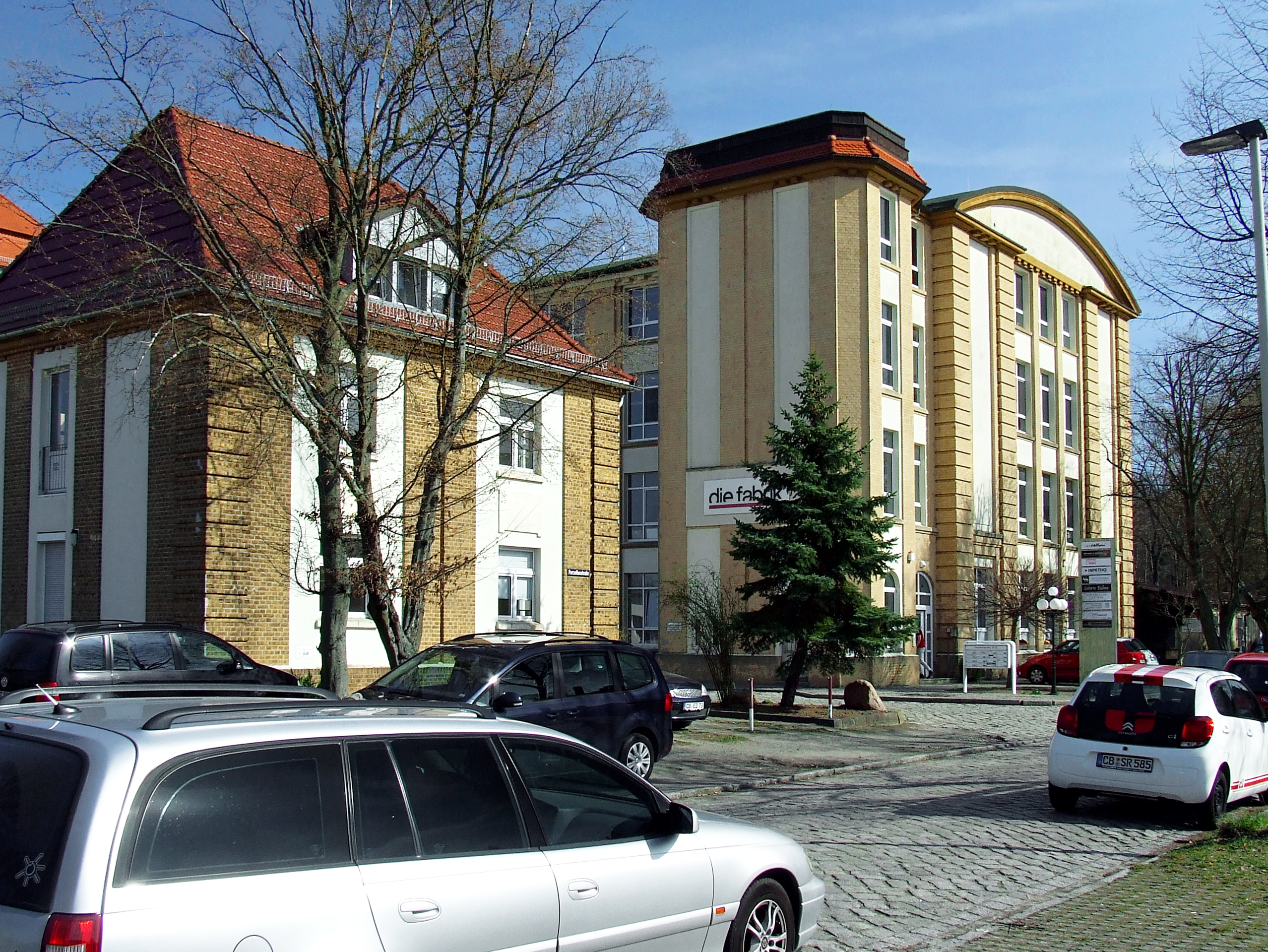 Former cloth factory Wilhelm Westerkamp jr, Parzellenstraße 27/28 in Cottbus-Spremberger Vorstadt. The cultural heritage monument now houses a variety of businesses. Shown here are Parzellenstraße 27 (left) and 28.